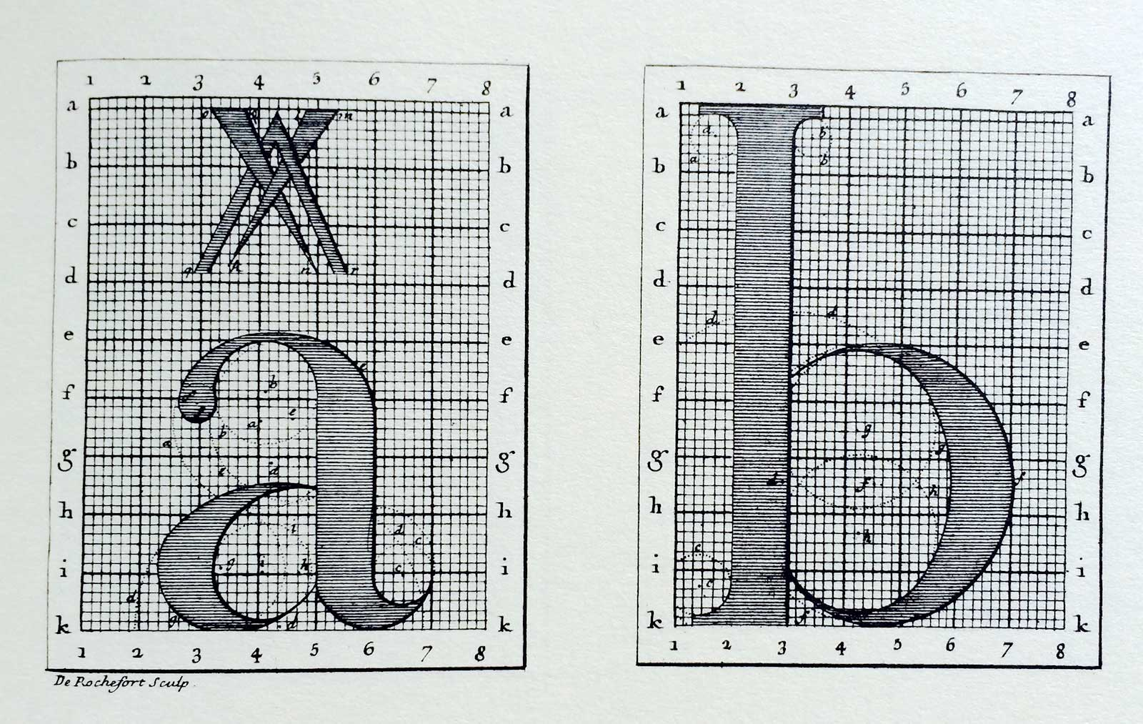 The bitmap (in Truchet points) used by the Bignon Commission in constructing the lower-case ⟨a⟩ and ⟨b⟩ of the Romain du Roi ("King's Roman"). Marks above the ⟨a⟩ describe the construction of the accents for ⟨á⟩, ⟨à⟩, and ⟨â⟩.